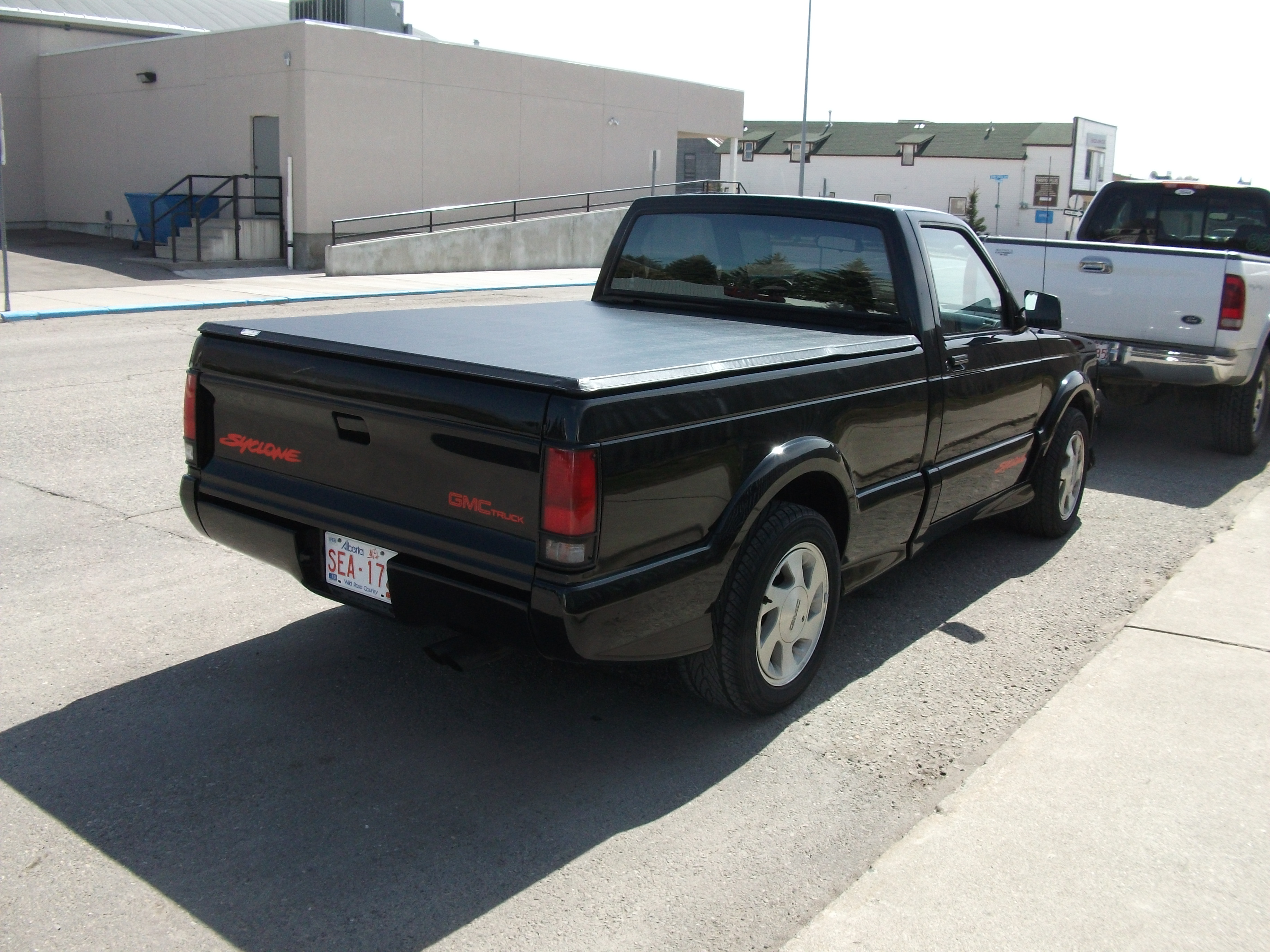 GMC Syclone truck - has a turbo charged V6 engine. When introduced, it was the quickest stock pickup in the world. Quicker than quite a few sports cars ... in a straight line anyway.